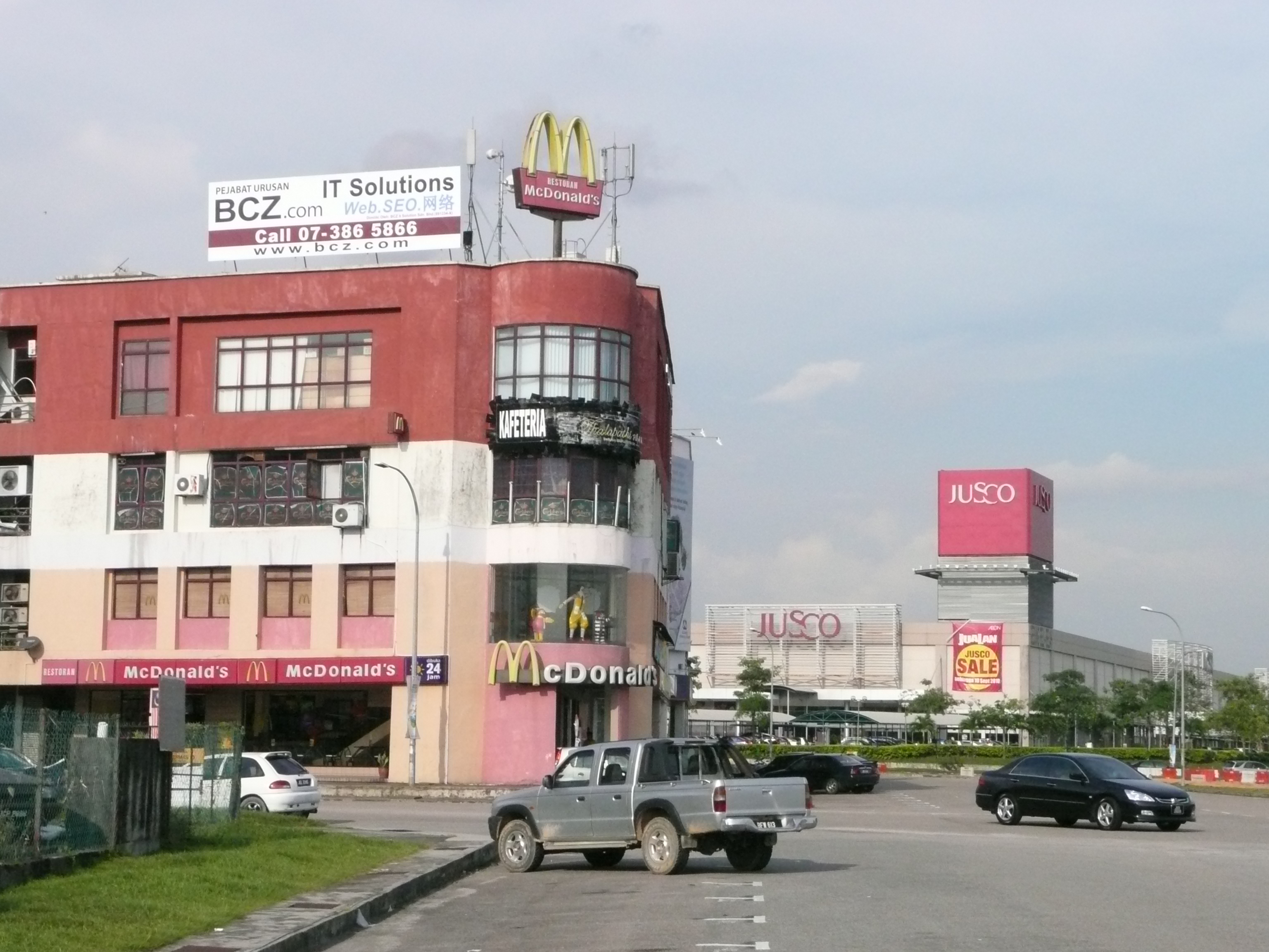 Permas Jaya resident photo, took while having dinner at McDonalds.